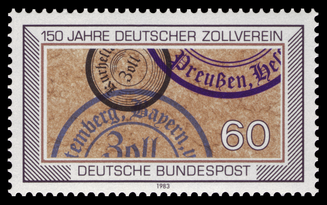 150 years of the German Zollverein